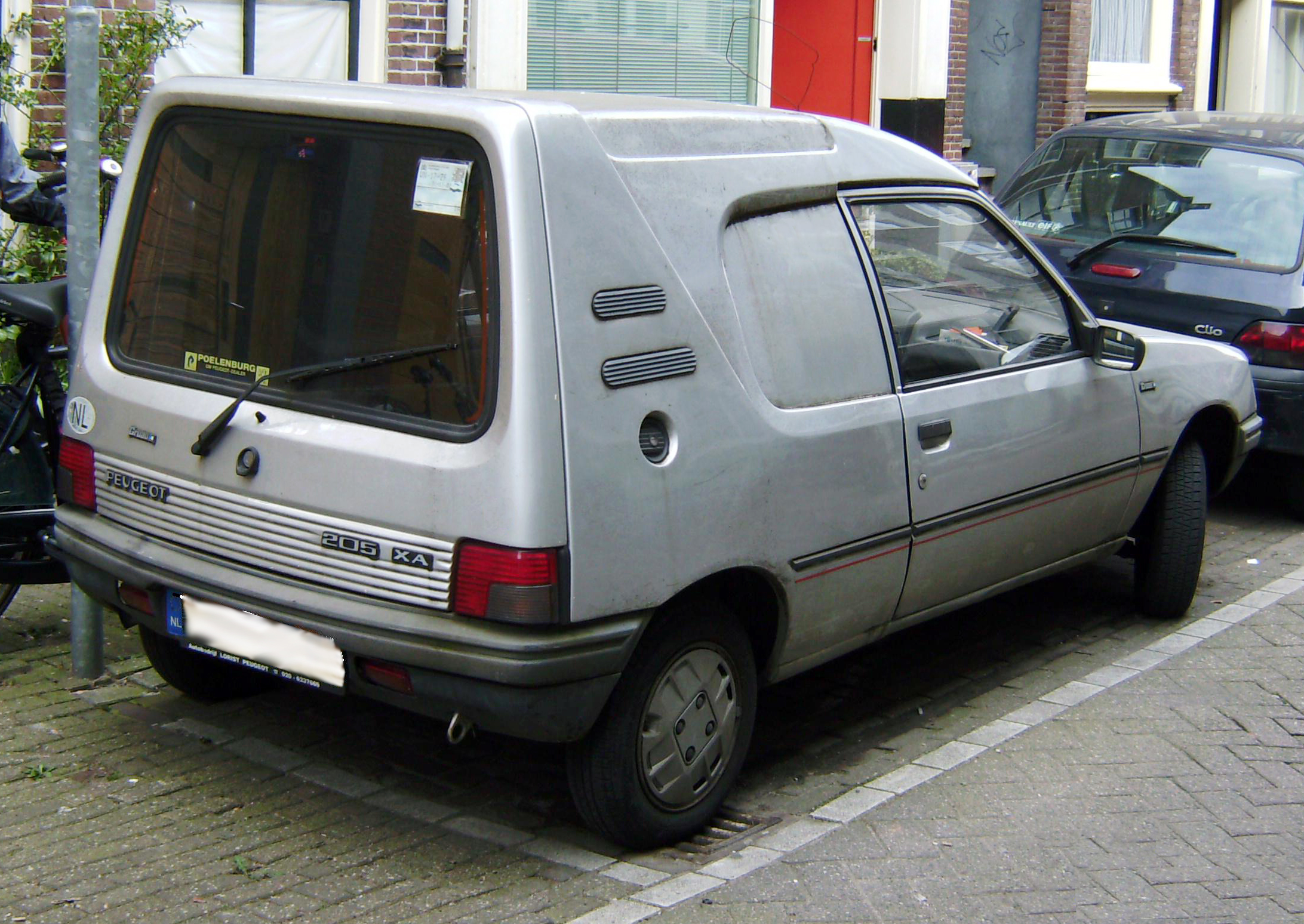 Peugeot 205 XA Van